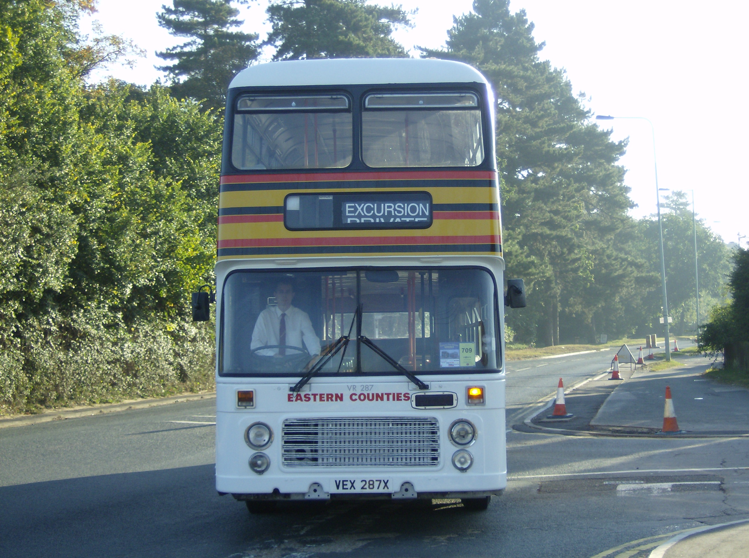 Bristol VRT VR 287 in Kesgrave in 2007